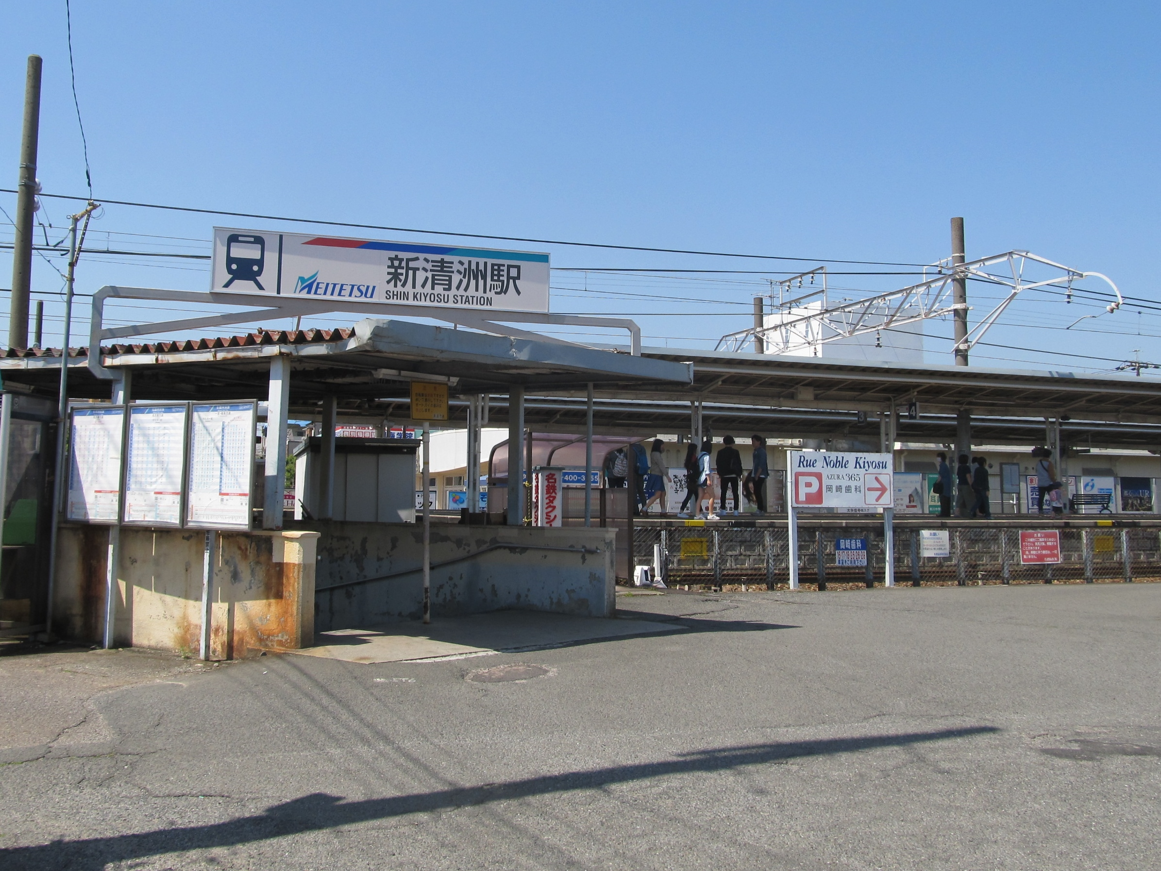 Nagoya Railroad Nagoya Main Line Shin Kiyosu Station East Gate